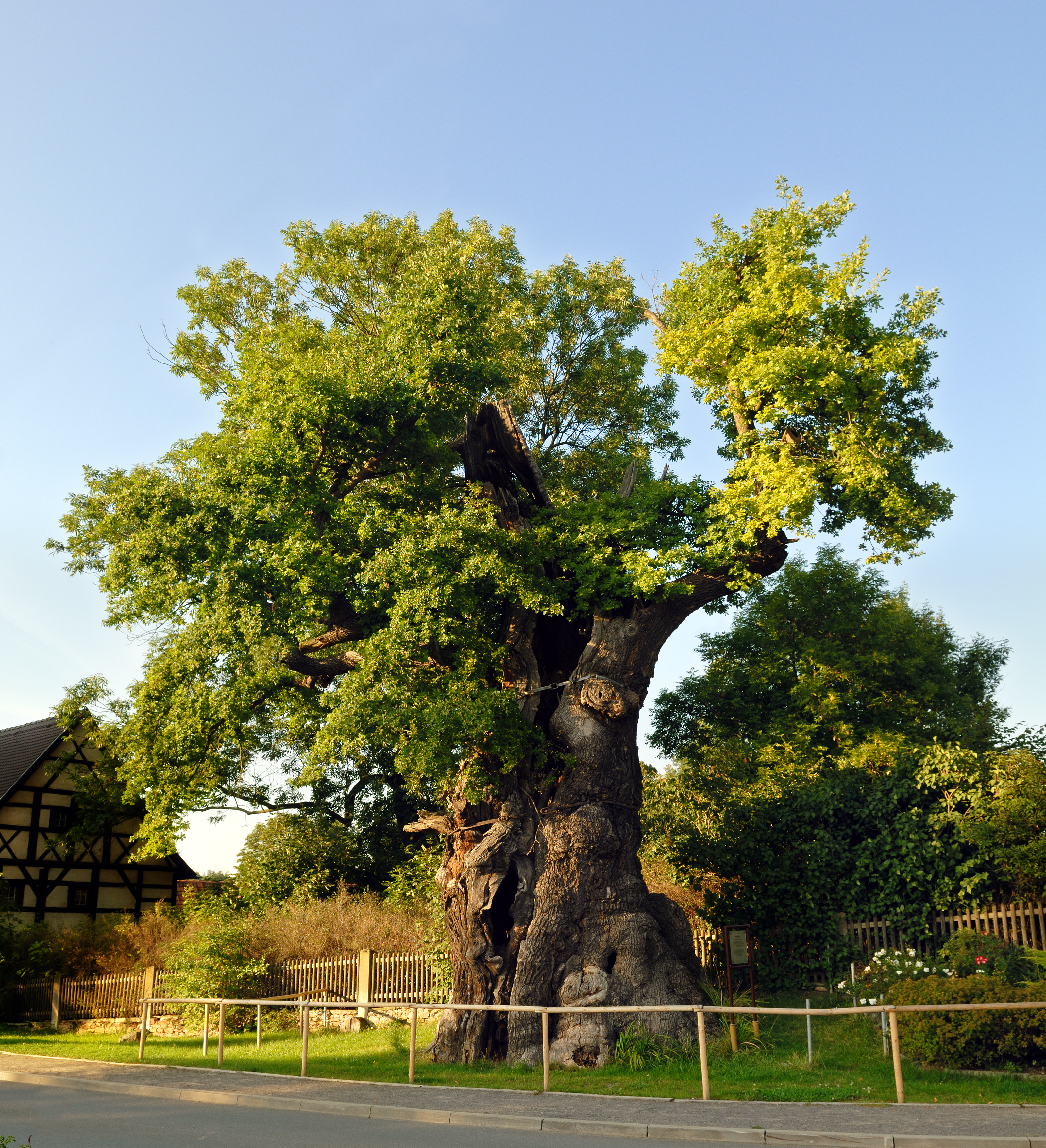 The grave oak in Nöbdenitz, Germany. It is a two segment panoramic image.